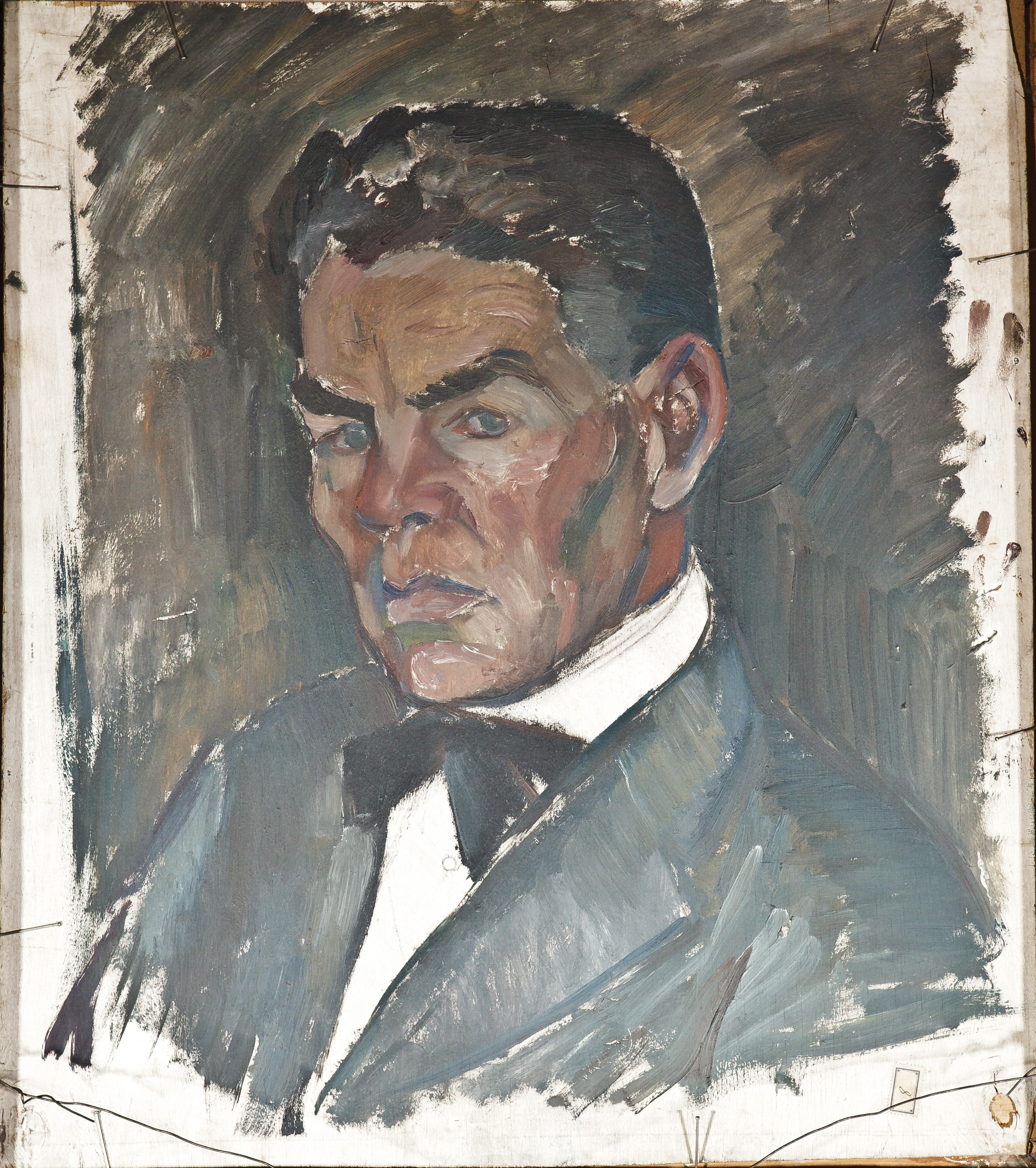 Appears to be a two-sided self-portrait. This is the suit side.